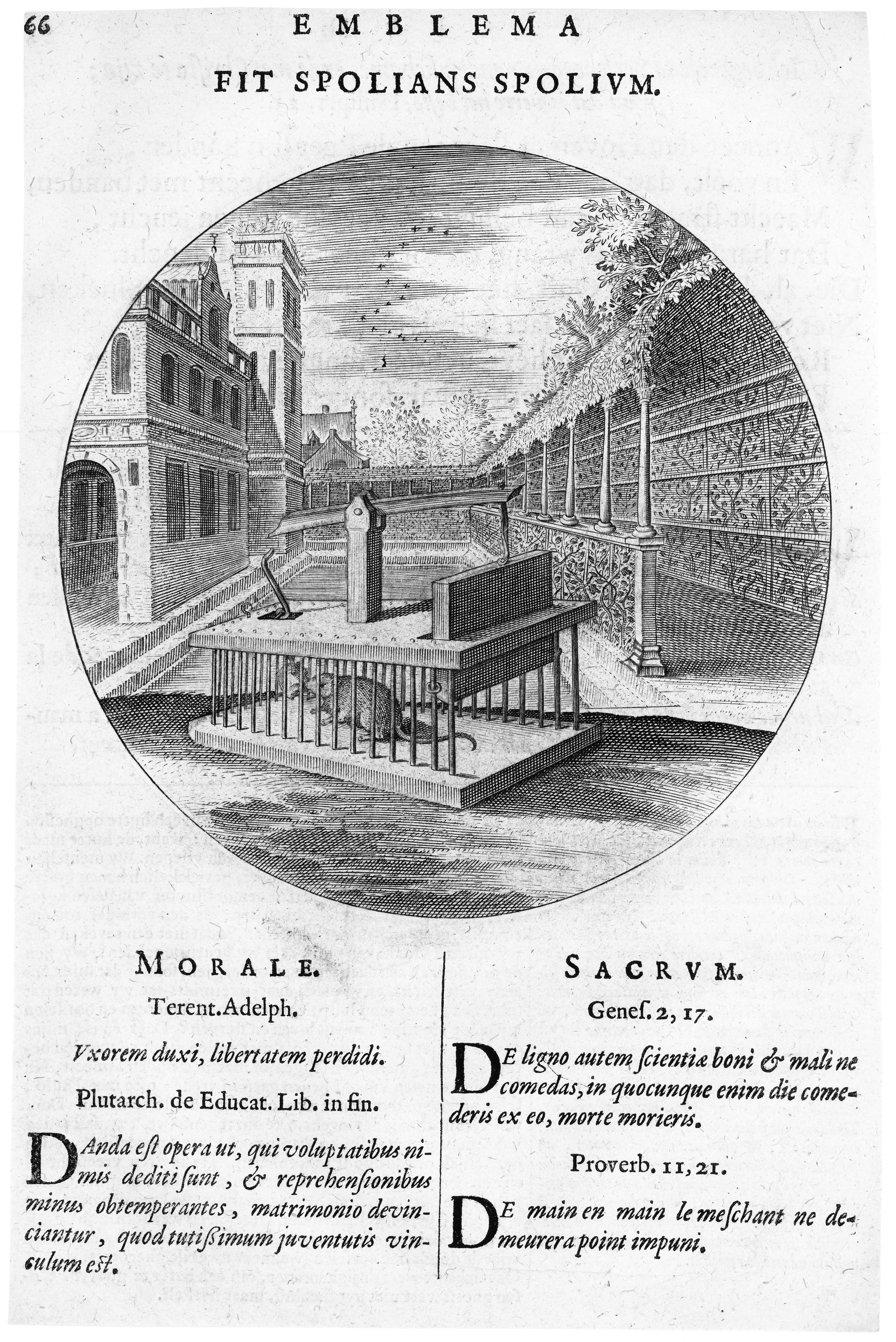 Page 66 from Jacob Cats, Monita amoris virginei, sive officium puellarum in castis amoribus, emblemate expressum. Maedchen-Pflicht, ofte Ampt der ionckvrovwen, in eerbaer liefde aenghewesen door sinne-beelden. Published in Amsterdam by Willem Iansz Blaeu in 1620. The publication history of Cats’ emblematic works is rather confusing. His Monita amoris virginei of 1620, from which this image was taken, is a modified edition of his work Silenus Alcibiadis, sive Proteus, vitae humanae idam, Emblemata trifariam variatio, oculis subjectis (Middelburg 1618) which contains exactly the same pictures. A later modification, called Proteus ofte Minne-beelden verandert in Sinne-beelden (Rotterdam 1627), repeats the same pictures but adds square frames to them. All these works should not be disturbed with Cats’ other (but similar) group of emblematic works, the Emblemata moralia et ae[!]conomica (Rotterdam 1627). For some bibliographic hints, see the standard publication by Arthur Henkel and Albrecht Schöne, Emblemata. Handbuch der Sinnbildkunst, Stuttgart (Germany) 1967 and reprinted, page xl/xli. But the edition of Amsterdam 1620 from which this picture has been taken is not mentioned by Henkel/Schöne. The copper engraving of all emblems was (according to Henkel/Schöne’s information about the first edition, Middleburg 1618) probably made by Jan Gerritsz Swelinck (born aroung 1601) after drawings of Adriaen van de Venne (1589-1662). The motto of this emblem—the 6th one in the order of the book—reads Fit spolians spolium, “While hunting he/she became a bag him/herself”. After this page, 3 more pages follow with various citations interpreting the emblem.